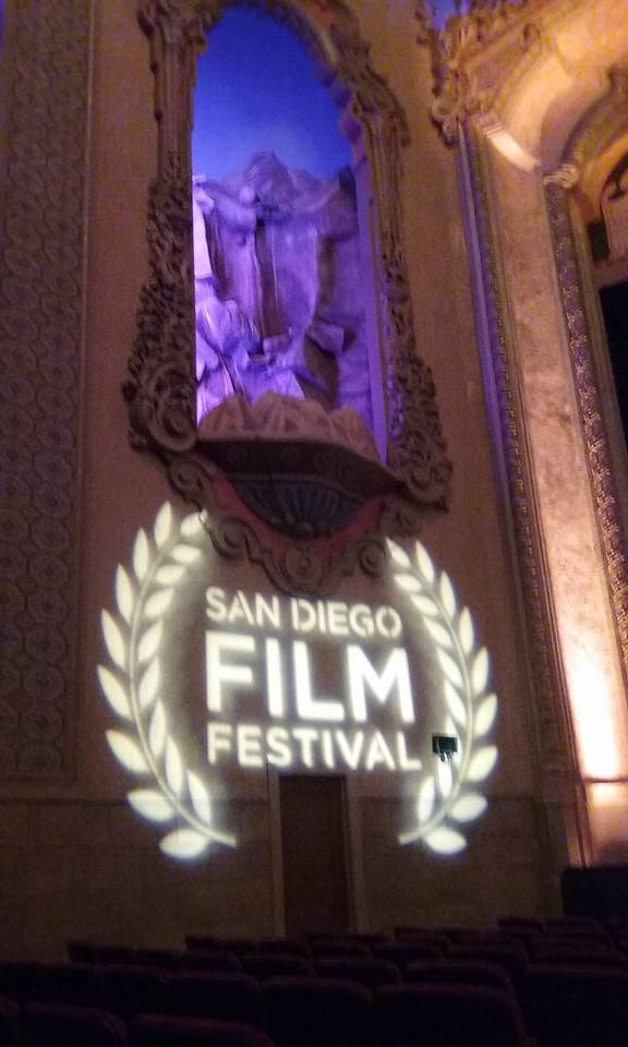 Balboa Theatre - Sep 28, 2016